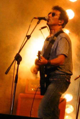 Italian songwriter Edoardo Bennato